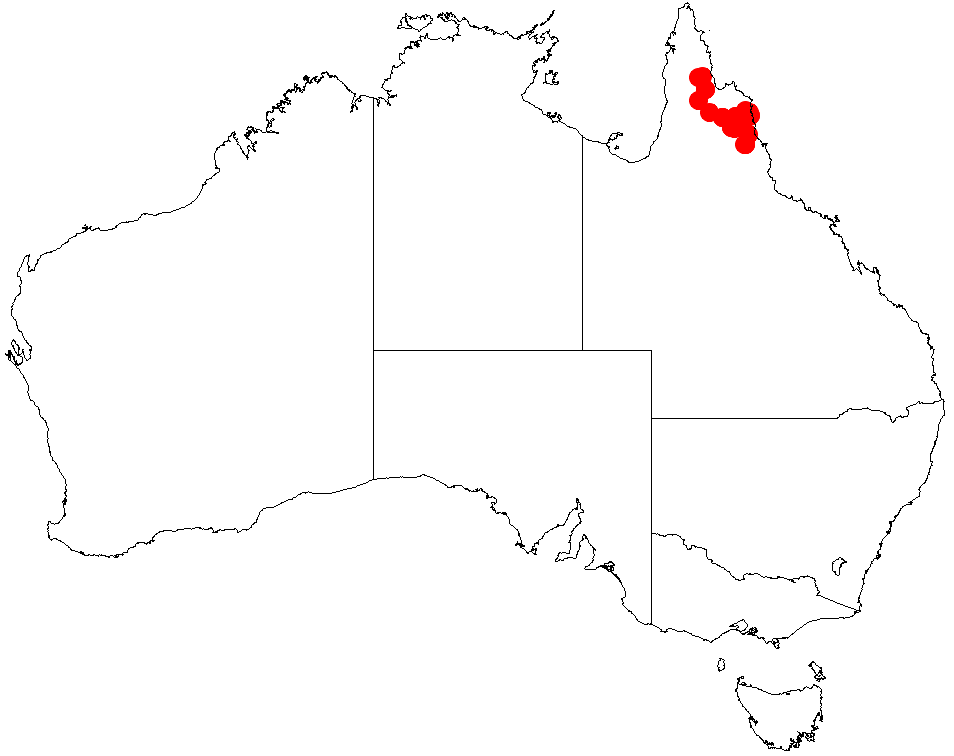 Acacia webbii occurrence data from Australasia Virtual Herbarium downloaded from on 8 December 2018